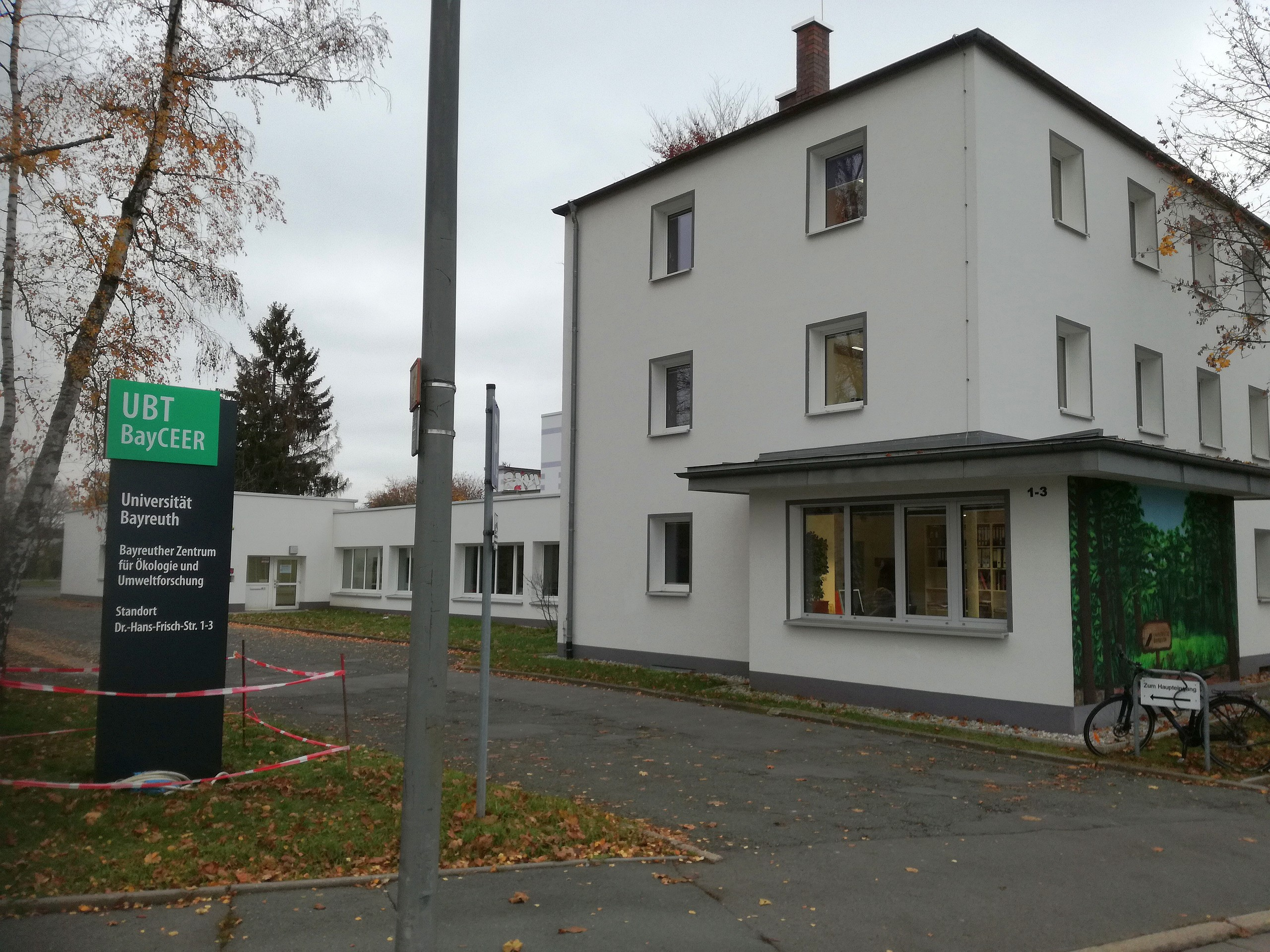 University Bayreuth, BayCEER building Dr Hans Frisch Str in Bayreuth